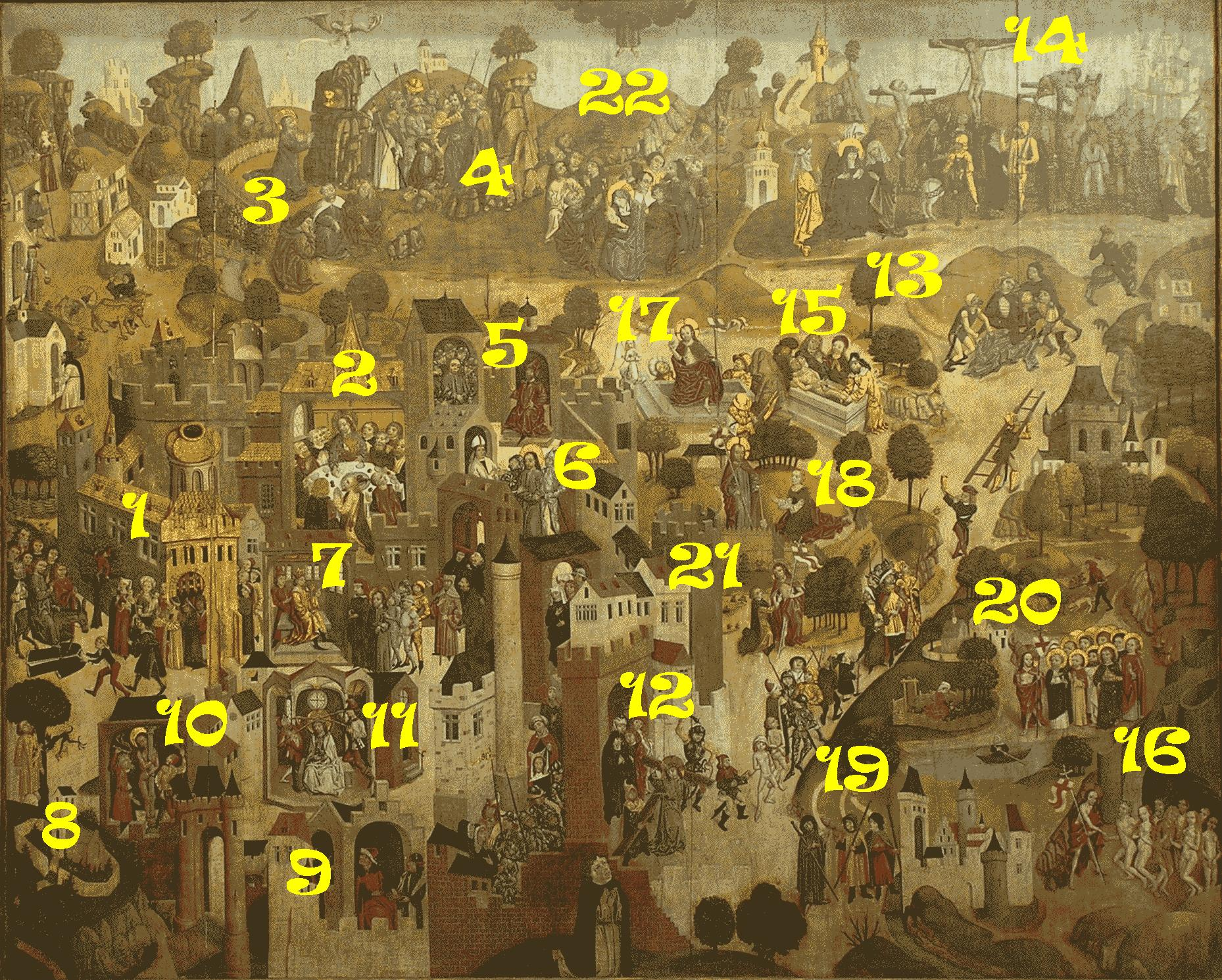 Panel painting with scenes of Passion of the Christ